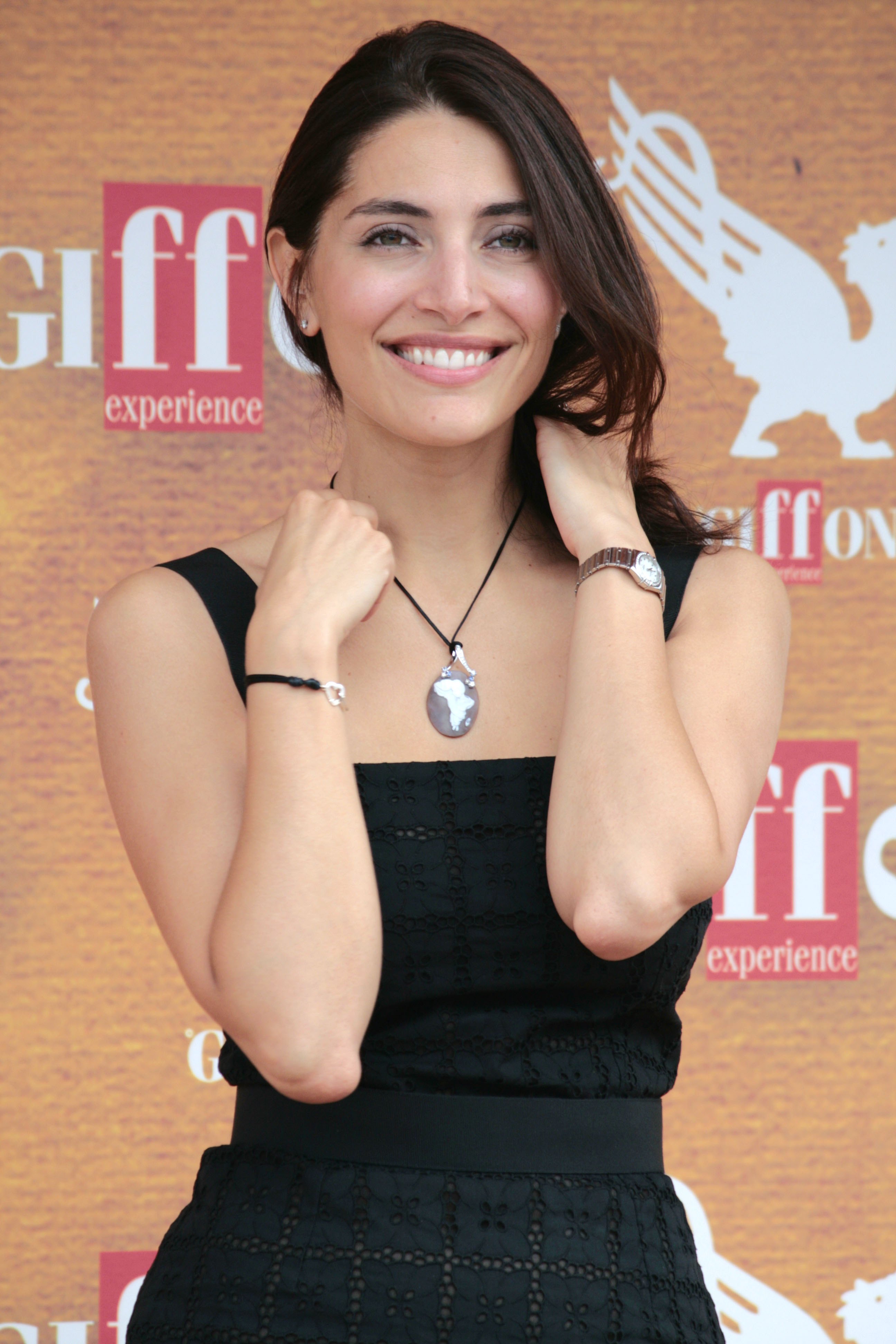 Caterina Murino at the Giffoni Film Festival in 2010